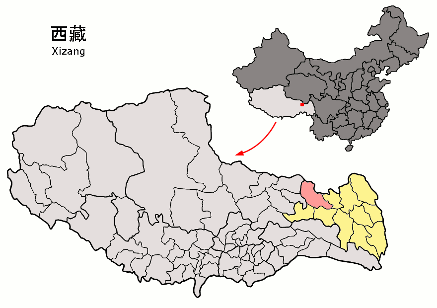 Location of Dêngqên County (pink) and Qamdo Prefecture (yellow) within Tibet (Xizang) autonomous region of China